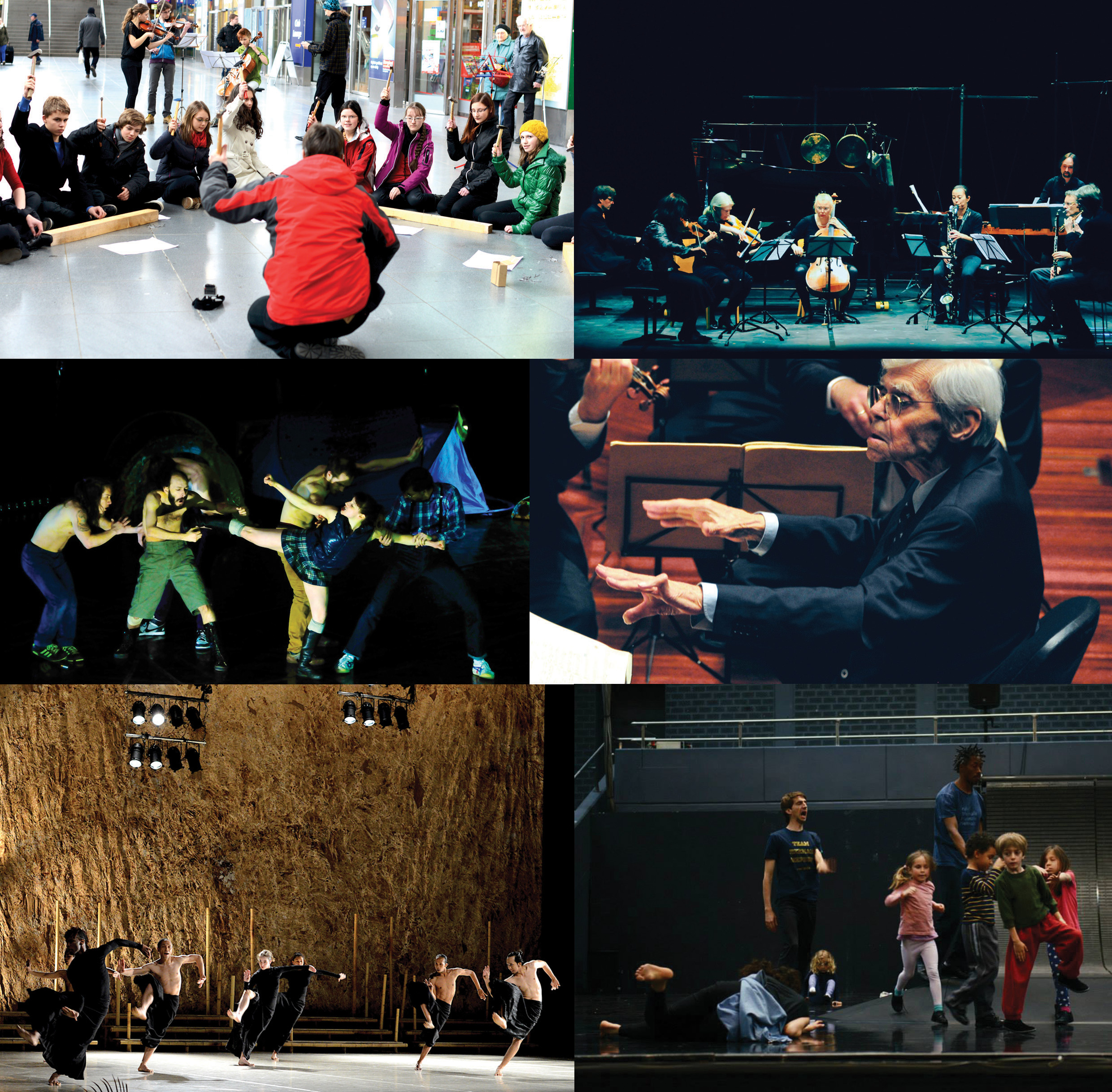 Some impressions of the Easter Festival Tyrol editions 2012 to 2014.